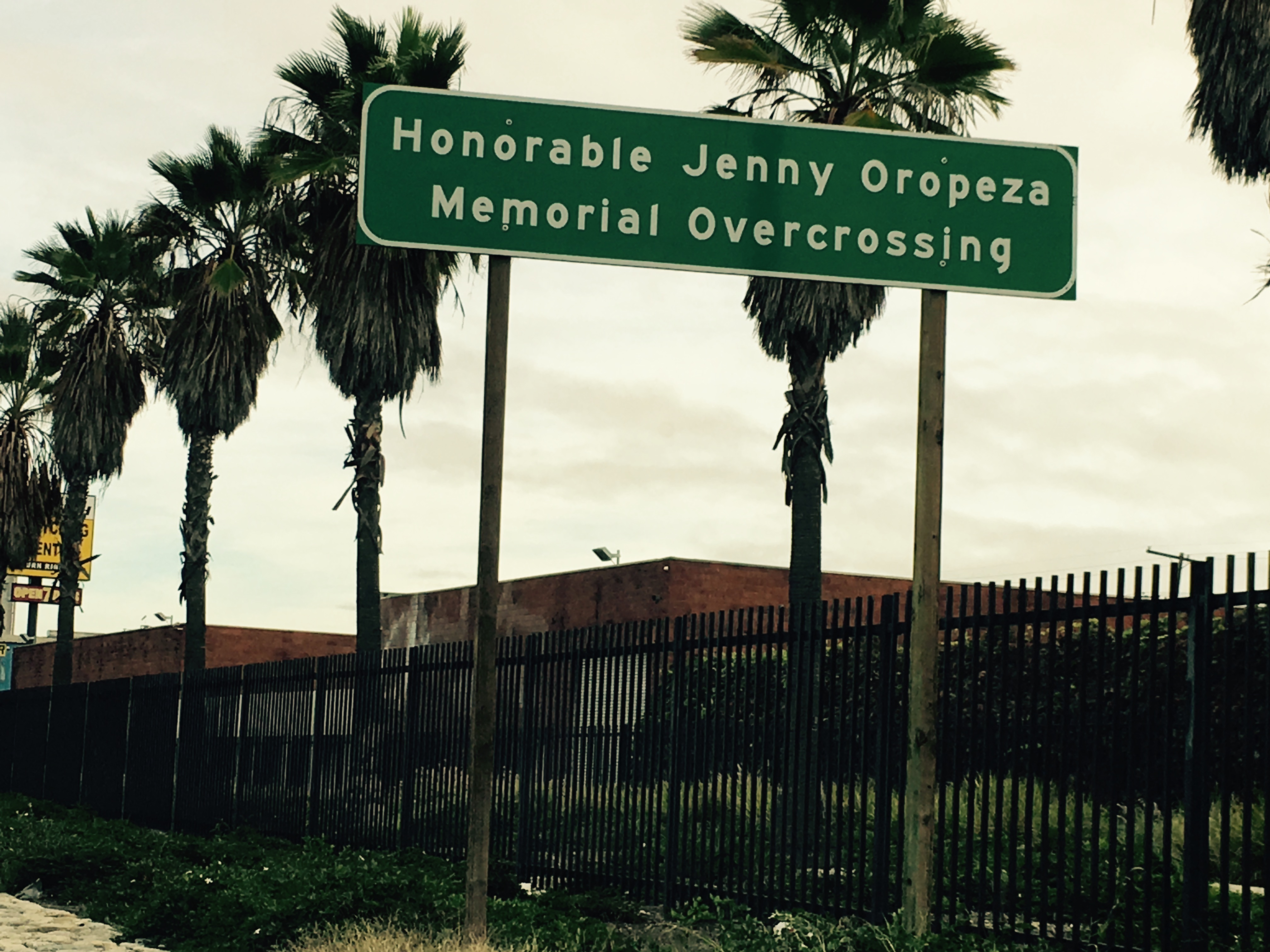 Sign for entrance to eastbound Honorable Jenny Memorial Overcrossing on Pacific Coast Highway at Coin Street (SE corner), November 2016.